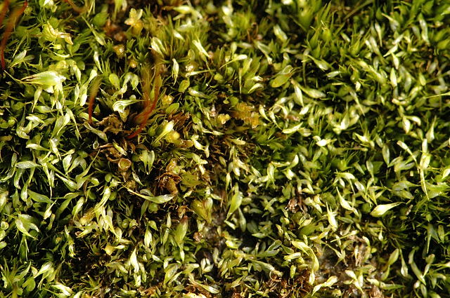 Picture taken in Commanster, Belgian High Ardennes . Species: Orthodontium lineare